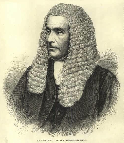 Crop of image from News article from The Illustrated London News about Sir John Rolt being named Attorney General